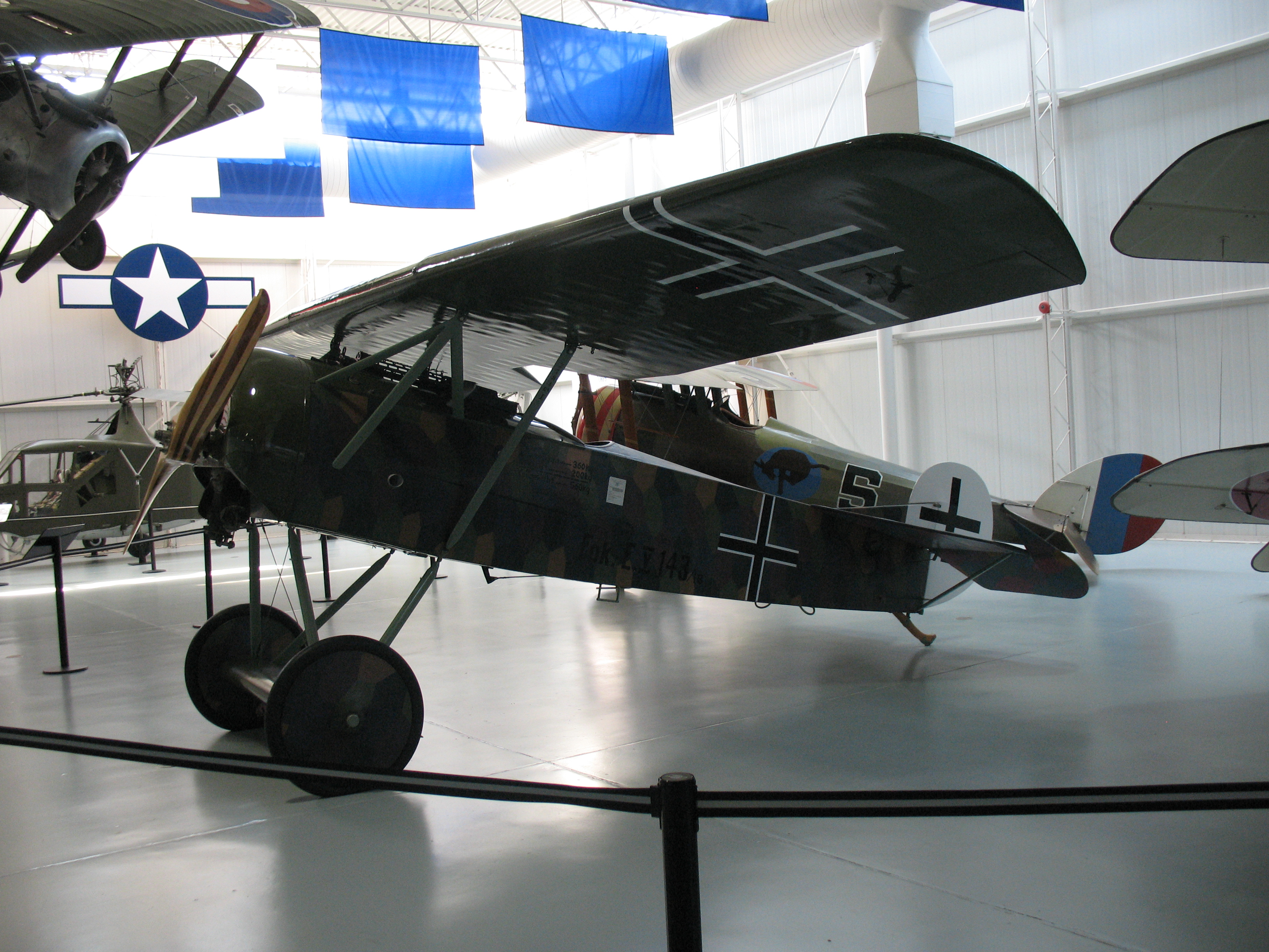 "First introduced in June 1918 the Fokker E.V. was reintroduced as the Fokker D-8 in October, and was the last German single seat aircraft to go into production in WW1. . . Known to Americans as the Flying Razor, the Fokker D-8 appeared for the first time at the front on Oct. 24, 1918. On Nov. 6 it shot down 3 French SPAD's (sic) in single combat." from Army Aviation Museum placard